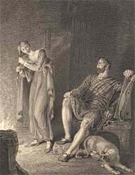 Engraving by Richard Golding from a drawing by Richard Westall illustrating a scene from Sir Walter Scott's poem "Glenfinlas ".